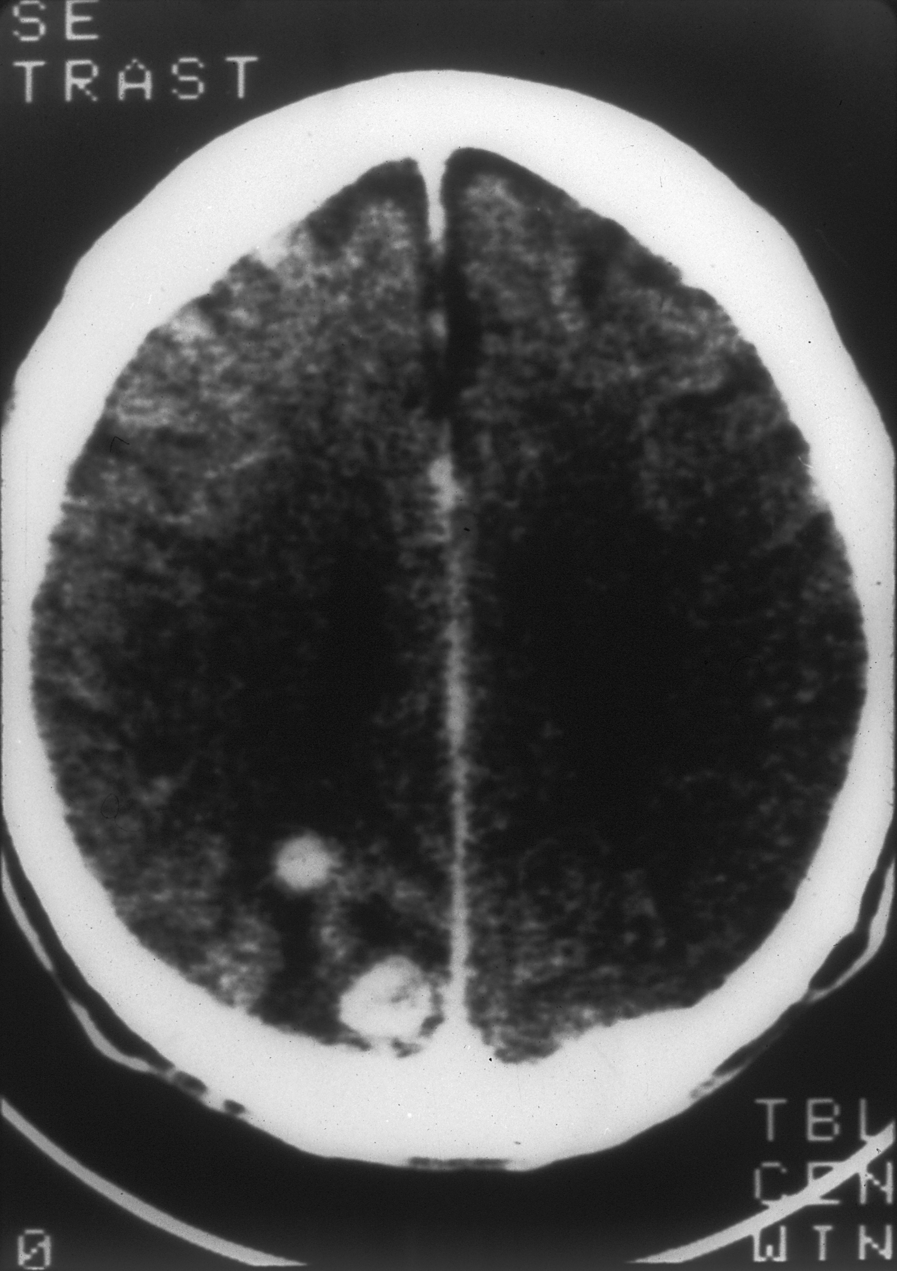 Title: AIDS: Diagnosis: CAT Scan: Brain Description: The image shows a black and white photo of a CAT scan of a human brain of a patient with AIDS. Subjects (names): Topics/Categories: AIDS -- Diagnosis Type: Black & White Slide Source: National Cancer Institute Author: Unknown photographer/artist AV Number: AV-8709-3479 Date Created: September 1987 Date Added: 1/1/2001 Reuse Restrictions: None - This image is in the public domain and can be freely reused. Please credit the source and/or author listed above.